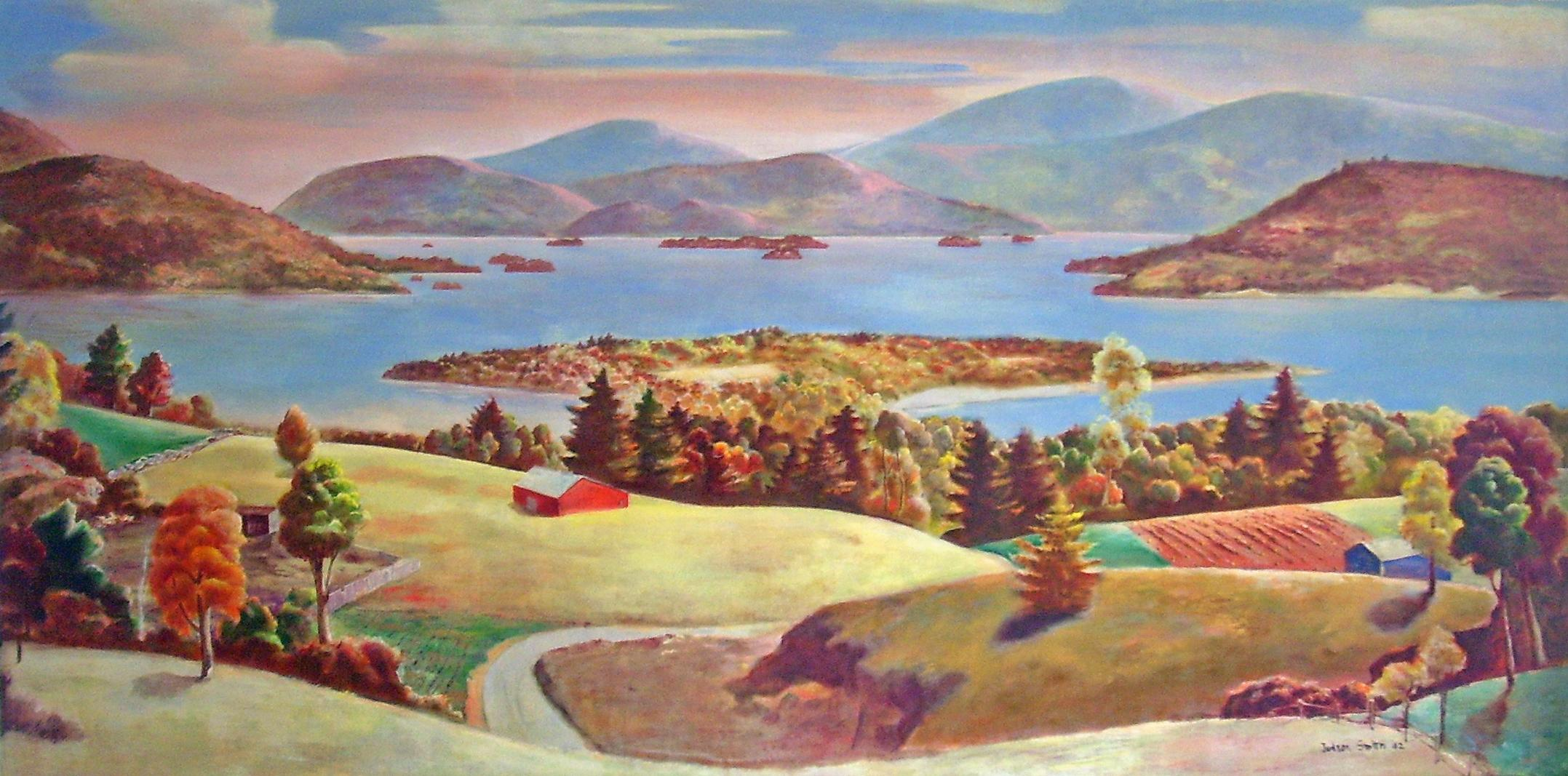 Mural of Lake George area painted by Judson Smith for local post office and currently displayed in lobby above entrance to postmaster's office